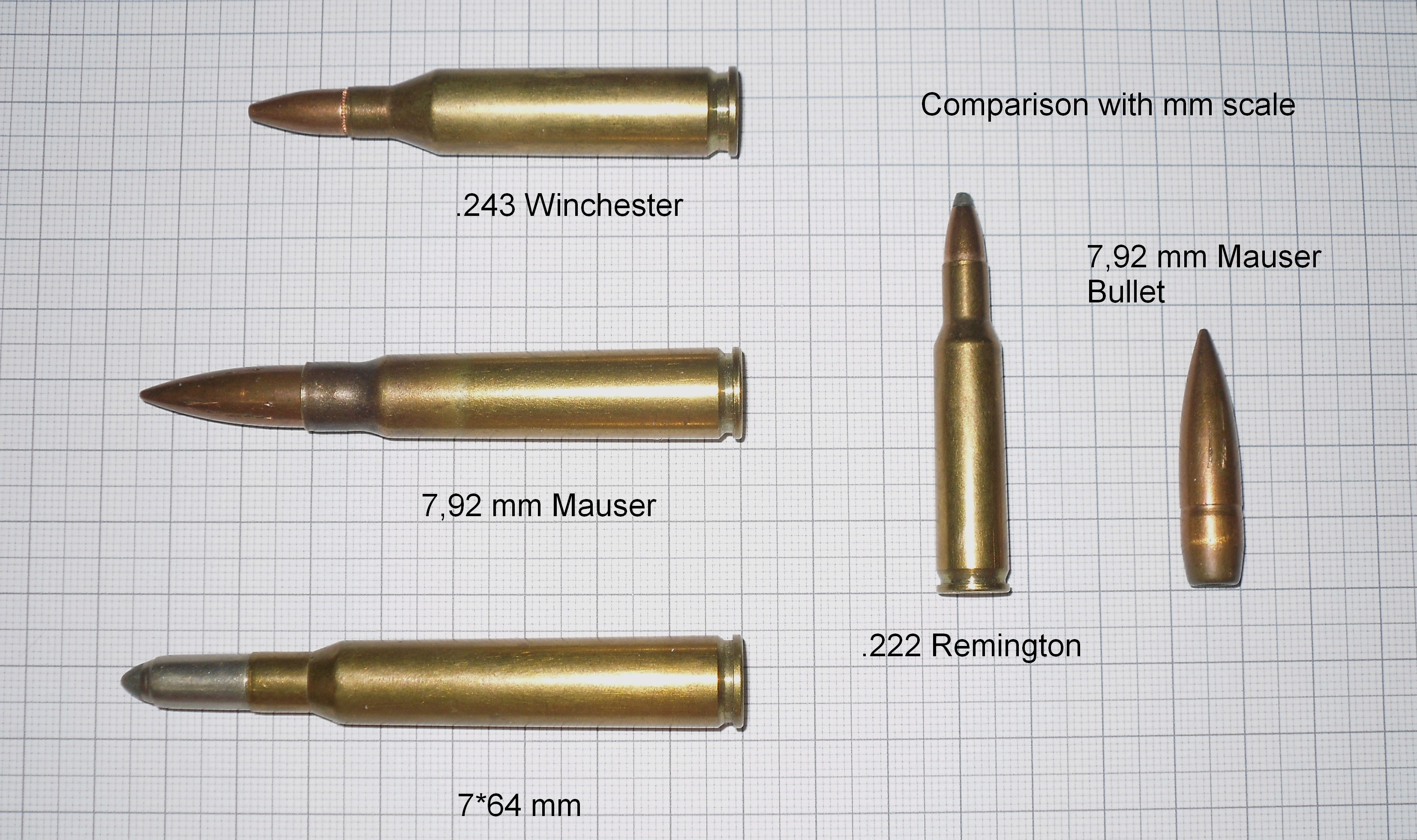 Cartridge comparison with mm scale. Used cartridges: 7×64mm, 7.92×57mm Mauser, .243 Winchester and .222 Remington